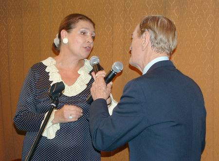 This image has been copied from the source with the permision of webmaster (and with the consent of the director of the service). The permission was granted to Stan Zurek (Zureks) via email from Mirosław Domański Depicted people: Barbara Dunin and Zbigniew Kurtycz.